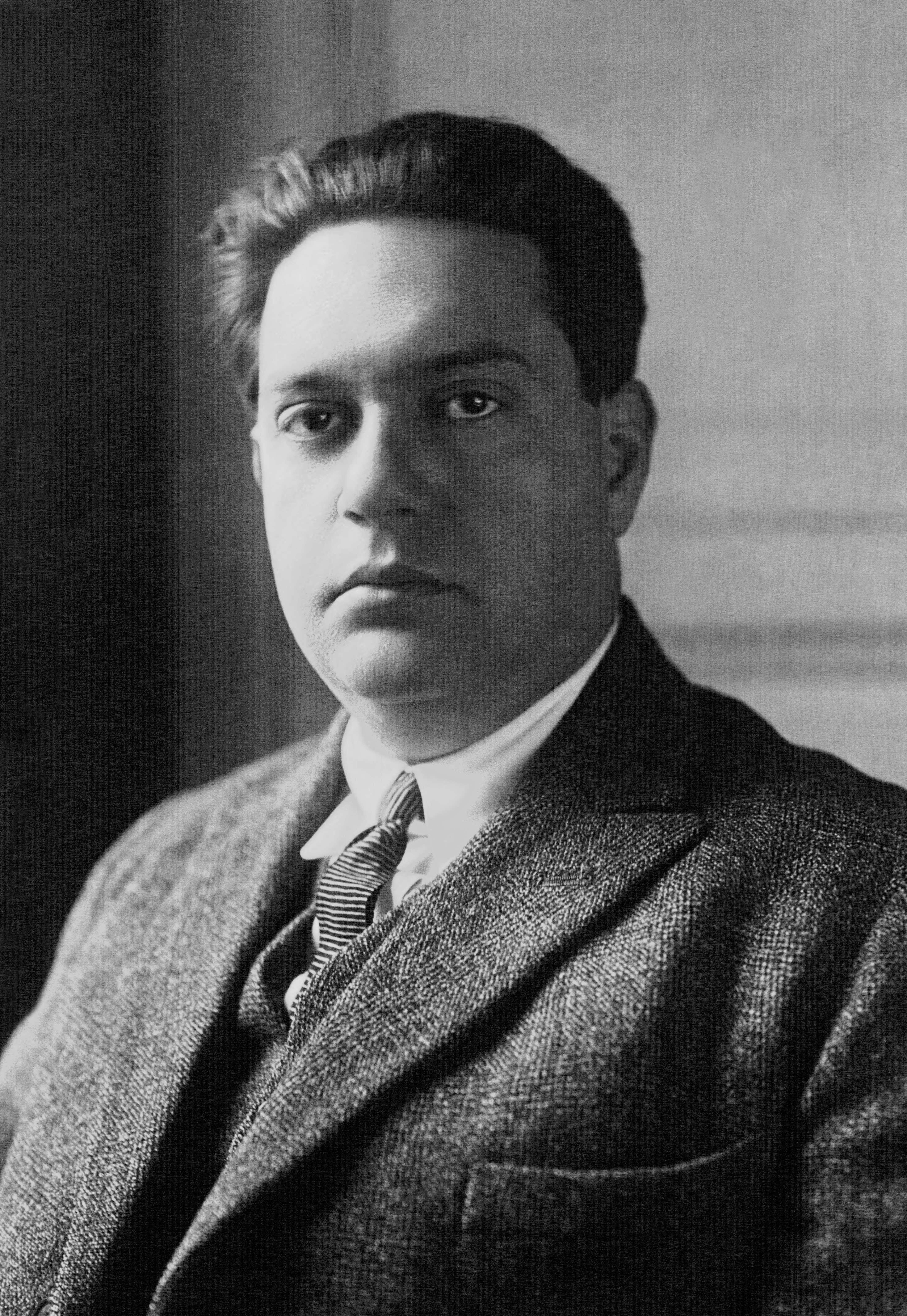 Darius Milhaud (1892-1974), French composer. Picture taken in 1923: glass negative, restored and cropped print.